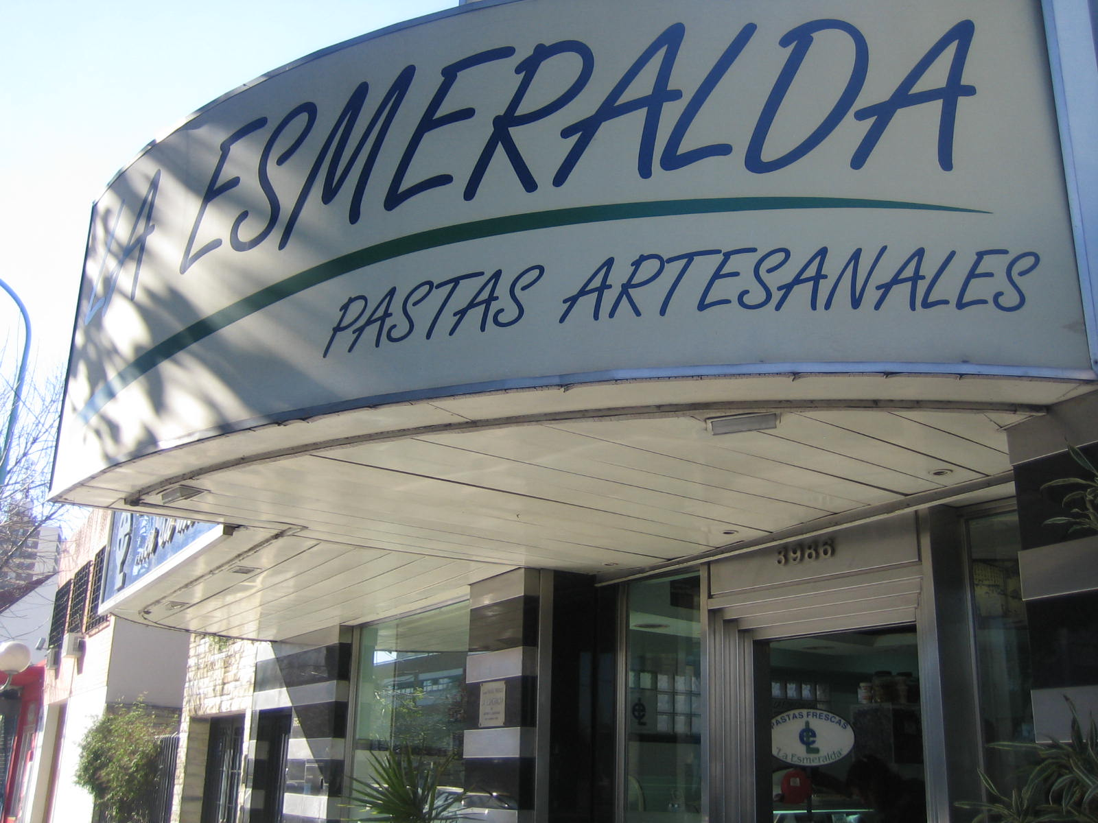 La Esmeralda - Buenos Aires - Argentina